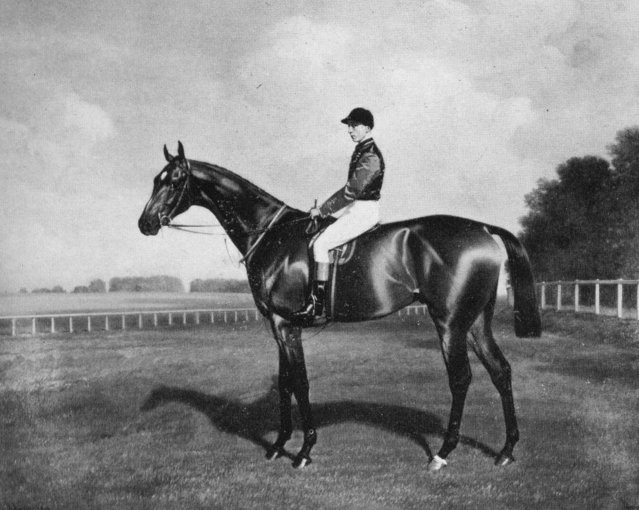 Diamond Jubilee, a triple crown winner. A painting by Emil Adam